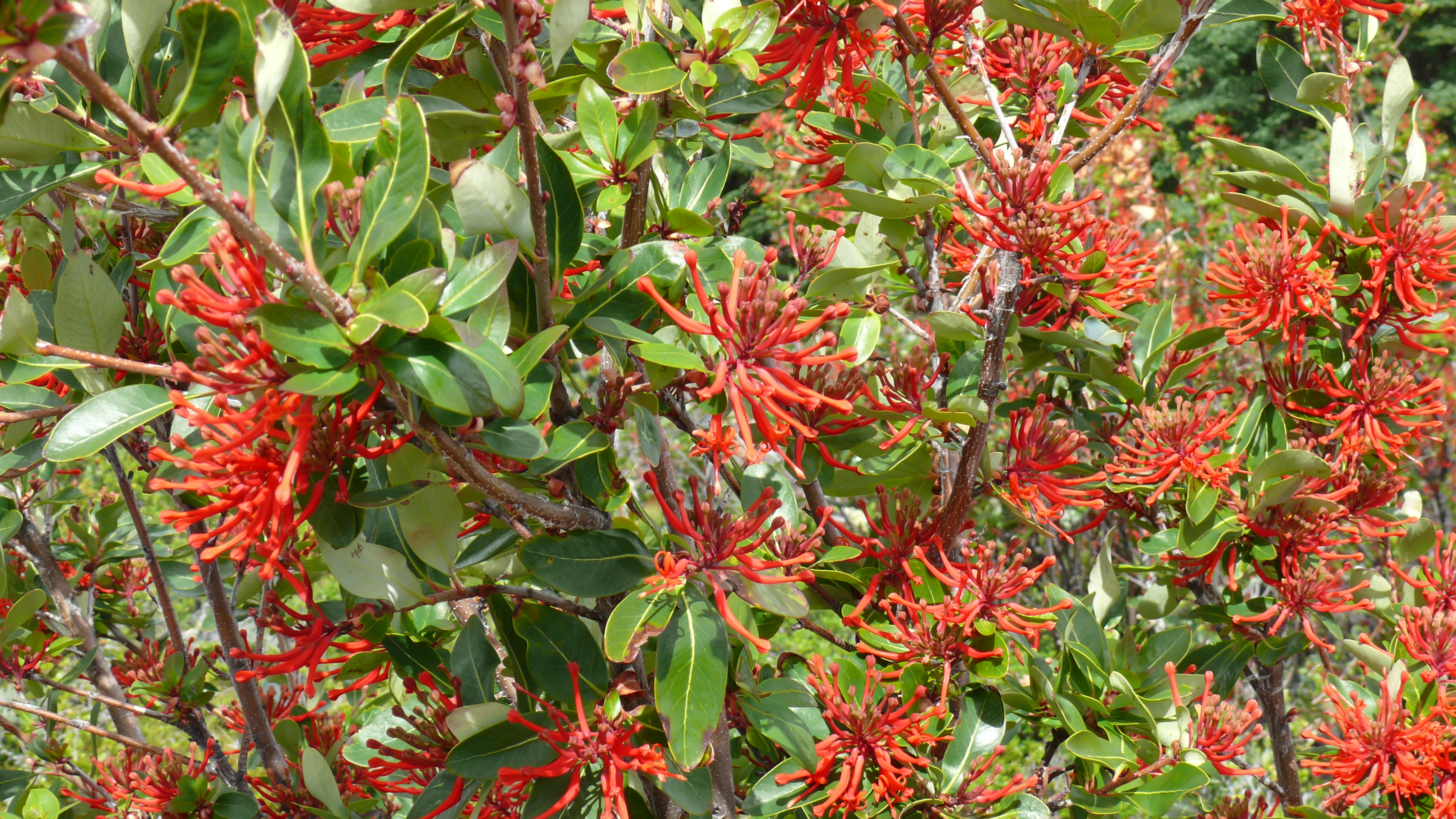 Chilean Firetree (Embothrium coccineum) - Torres del Paine National Park (Chile)